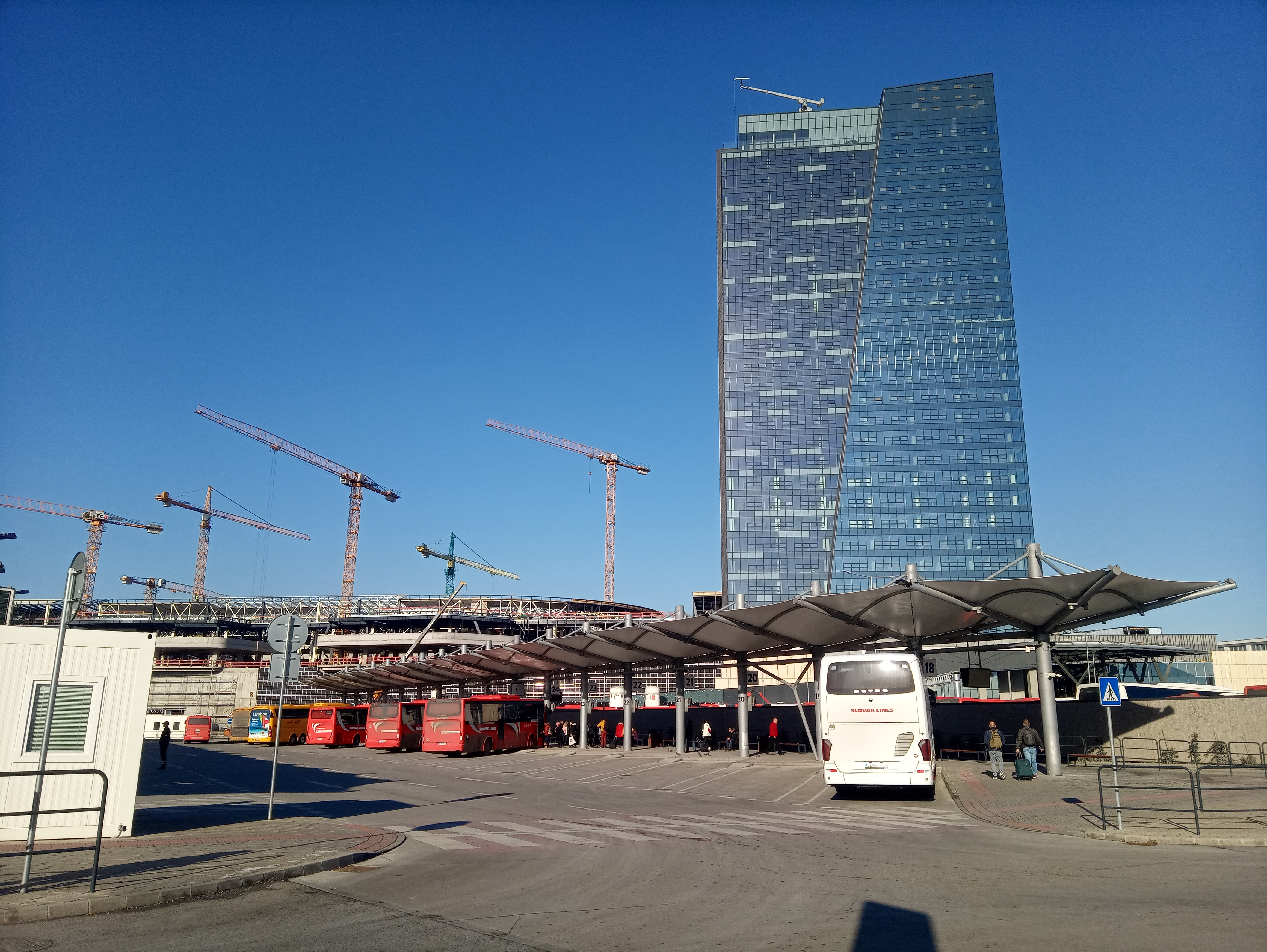 New buildings around the temporary bus station in Bratislava-Nivy, Slovakia, January 2020.